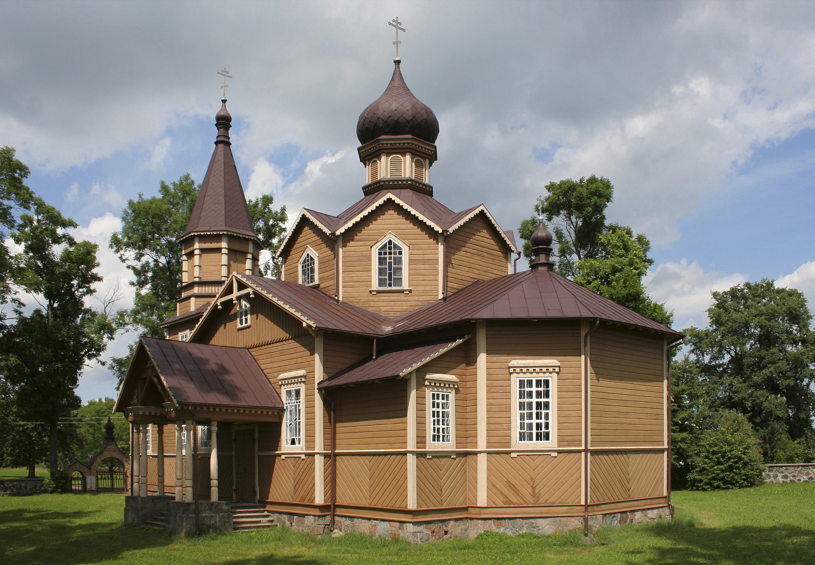 Orthodox church of John the Baptist in Nowa Wola.